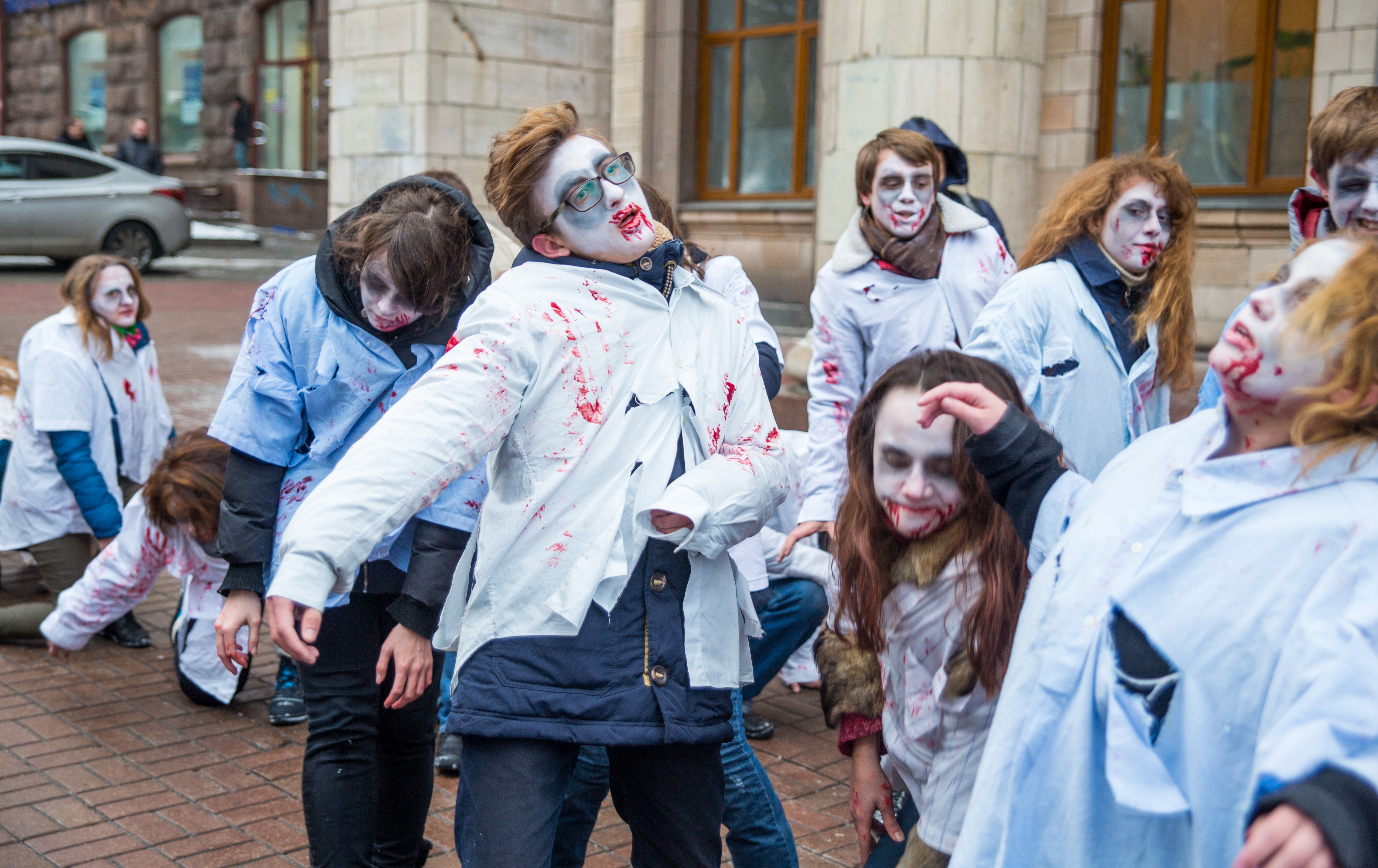 Performance near building of National Council of Ukraine on Television and Radio in Kyiv. The requirements to ban Russian content on Ukrainian TV. "Boycott Russian Films" campaign. Picture made by Taras Trotsyuk, activist of "Vidsich".